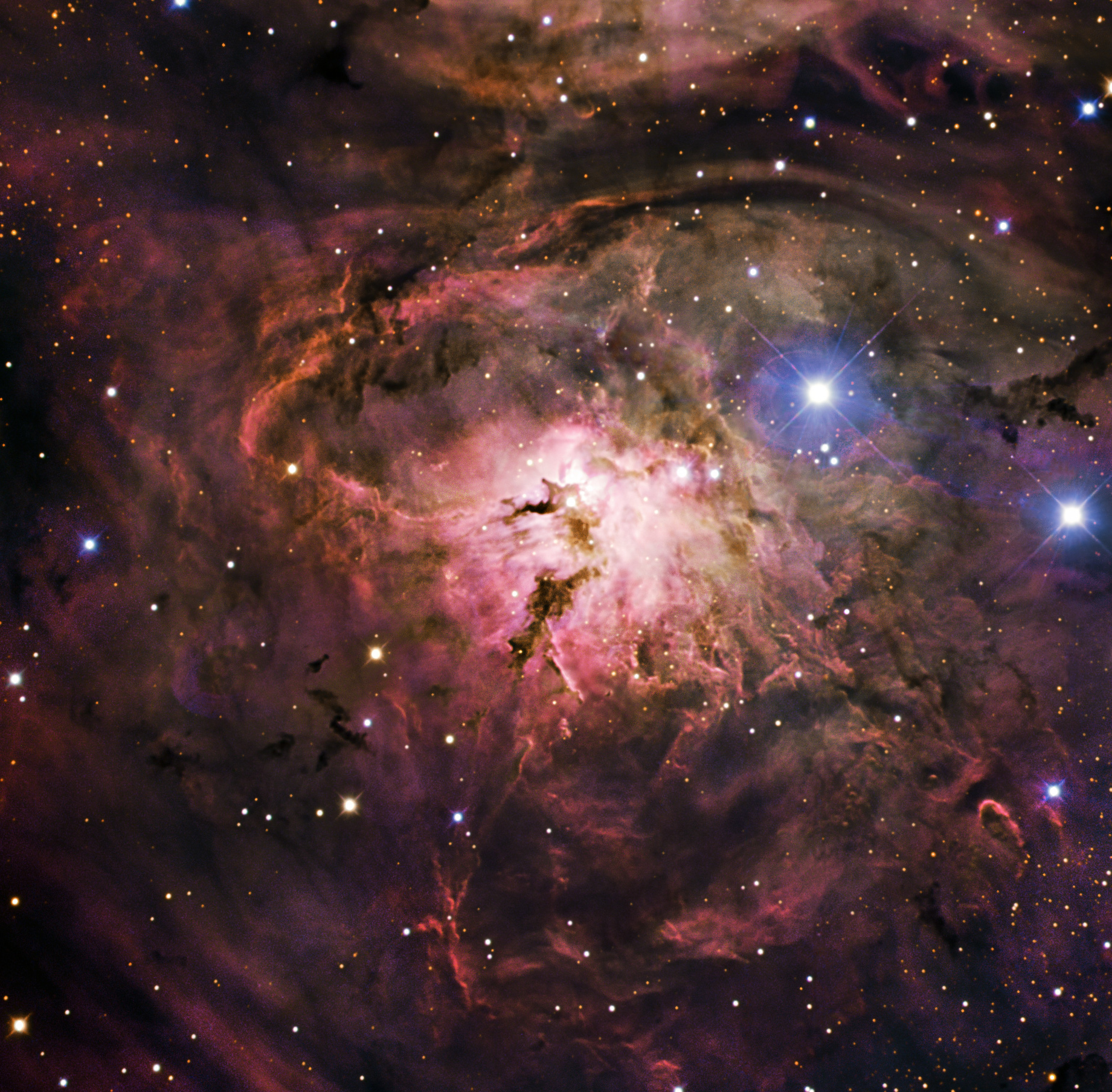 Gas and dust condense, beginning the process of creating new stars in this image of Messier 8, also known as the Lagoon Nebula. Located four to five thousand light-years away, in the constellation of Sagittarius (the Archer), the nebula is a giant interstellar cloud, one hundred light-years across. It boasts many large, hot stars, whose ultraviolet radiation sculpts the gas and dust into unusual shapes. Two of these giant stars illuminate the brightest part of the nebula, known as the Hourglass Nebula, a spiralling, funnel-like shape near its centre. Messier 8 is one of the few star-forming nebulae visible to the unaided eye, and was discovered as long ago as 1747, although the full range of colours wasn’t visible until the advent of more powerful telescopes. The Lagoon Nebula derives its name from the wide lagoon-shaped dark lane located in the middle of the nebula that divides it into two glowing sections. This image combines observations performed through three different filters (B, V, R) with the 1.5-metre Danish telescope at the ESO La Silla Observatory in Chile. Credit: ESO/IDA/Danish 1.5 m/ R. Gendler, U.G. Jørgensen, K. Harpsøe